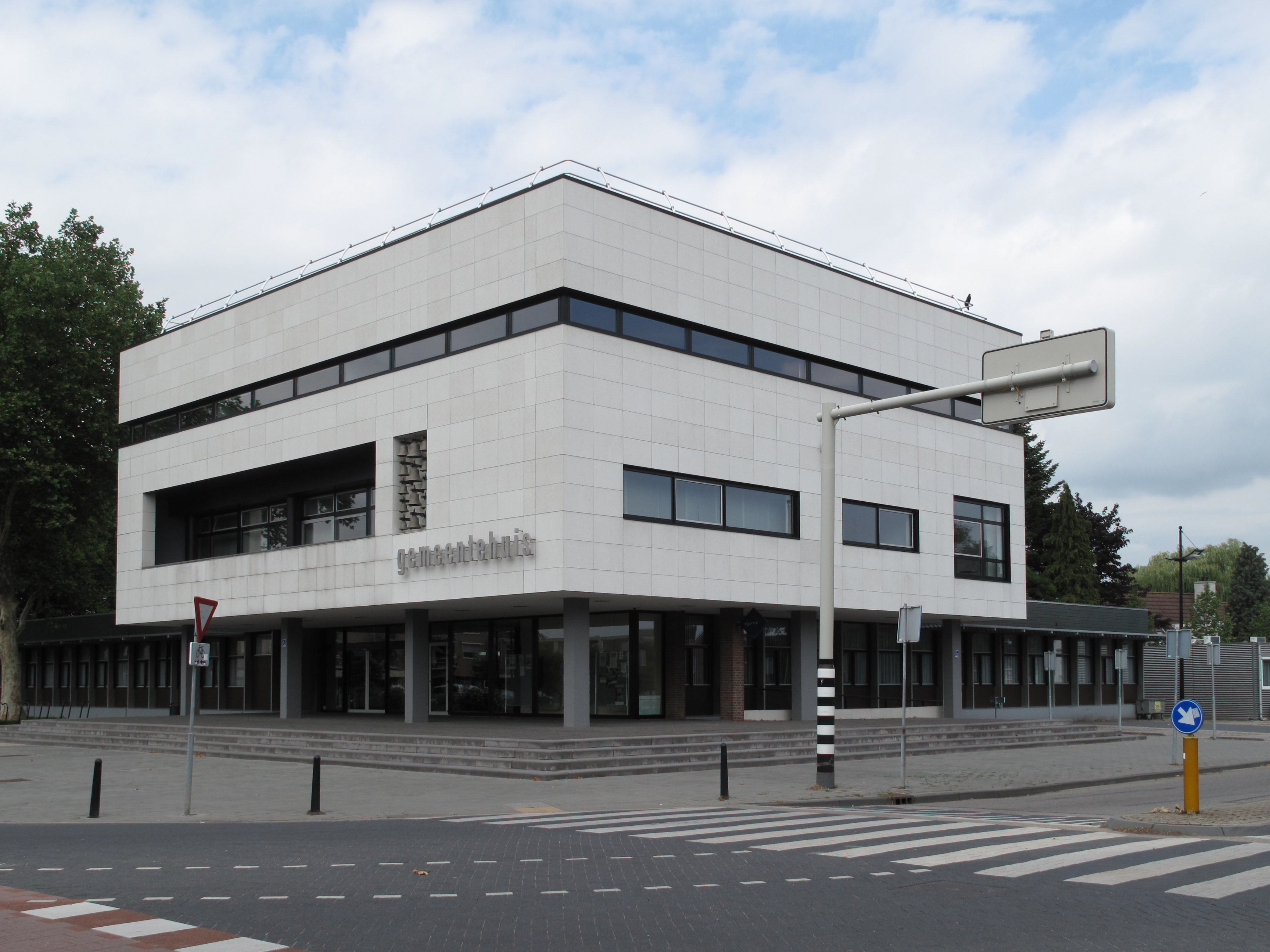 Druten, town hall